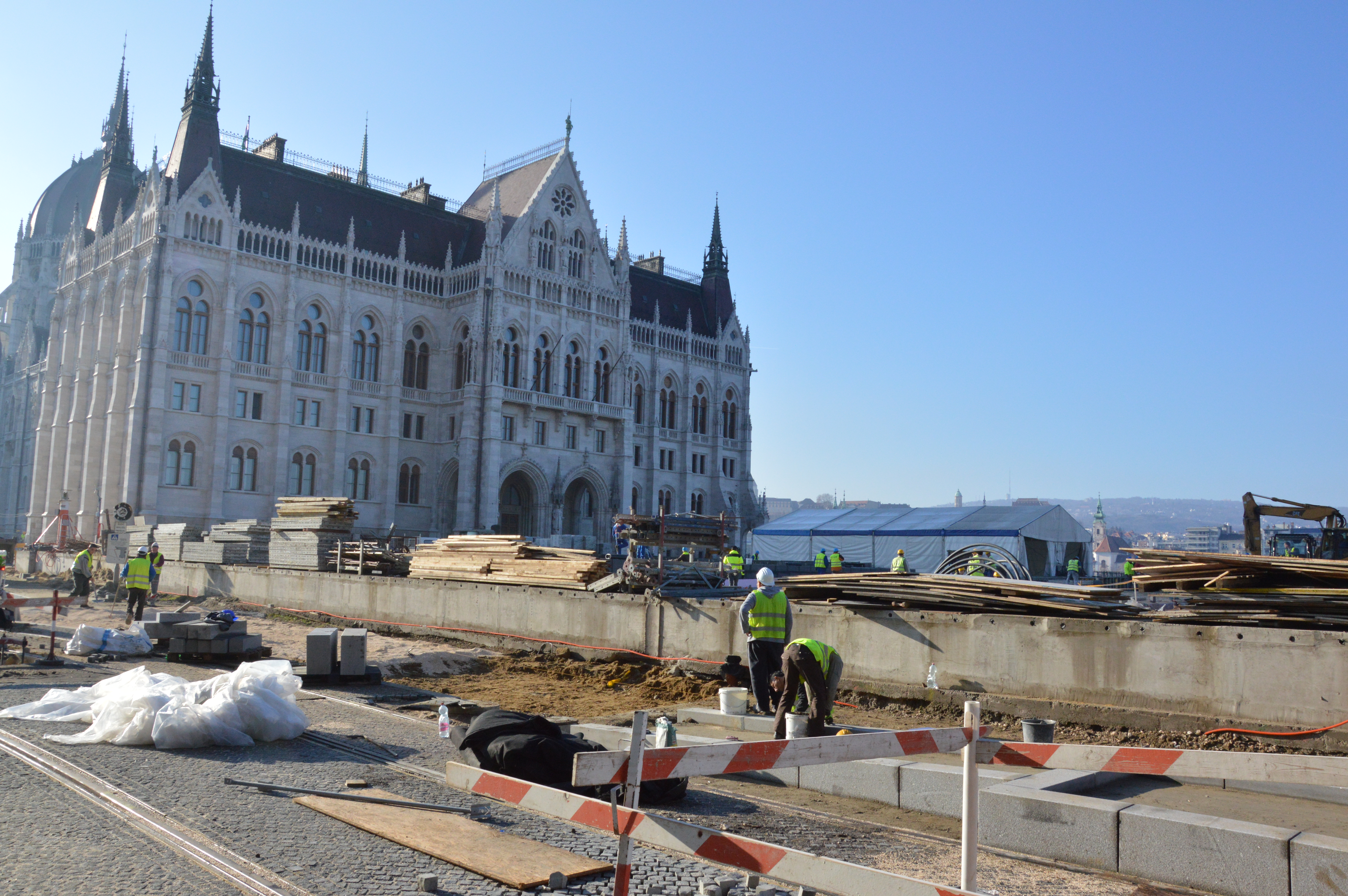 Construction work being done on Kossuth Lajos tér in Budapest, returning the square to the way it looked during the Horthy era.